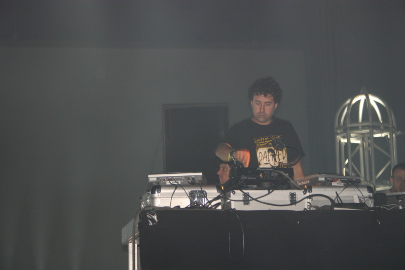 Dave Clarke live at Dour (Belgium) 13 July 2007